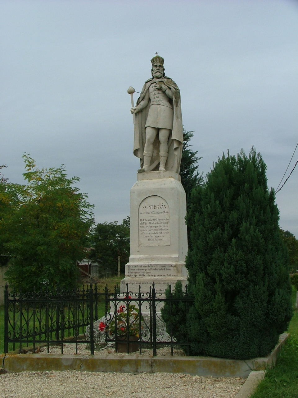 Sculpture of King Stephen in Pusztacsalád. The Sculpture wears the face of István Széchenyi.